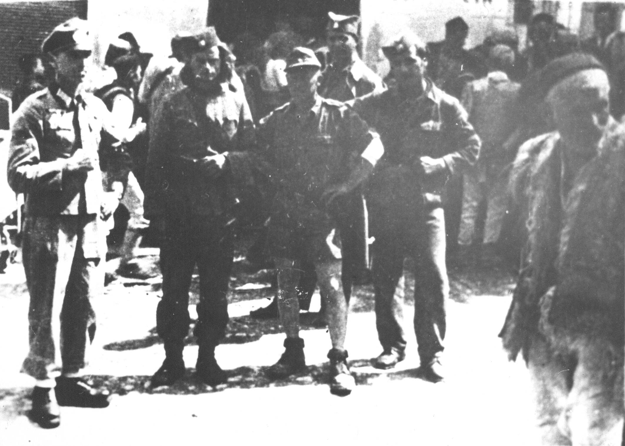 The Chetniks and Germans in Herzegovina in 1943. Srpskohrvatski / српскохрватски: Četnici i Nemci u Hercegovini 1943.